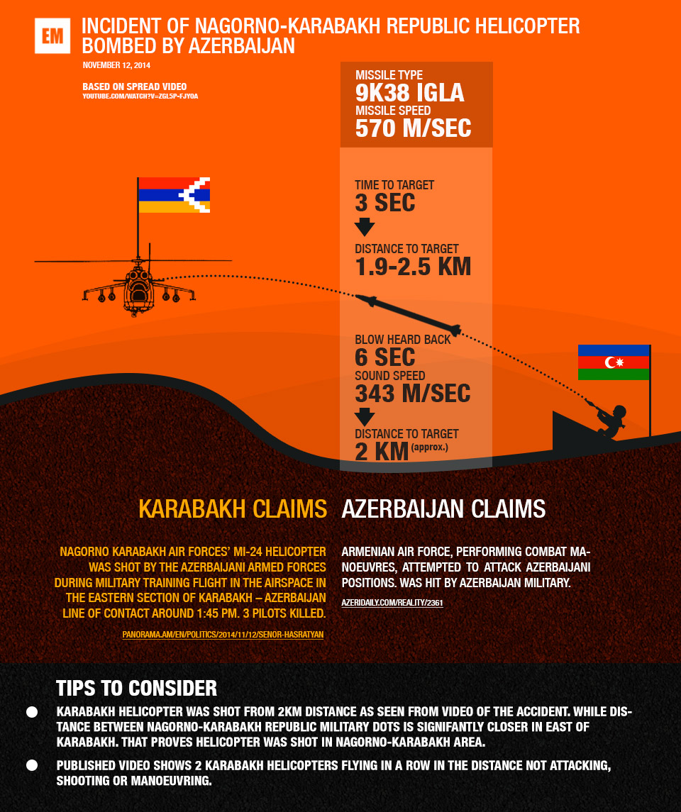 Infographic on Armenian helicopter shut down by Azerbaijan forces.